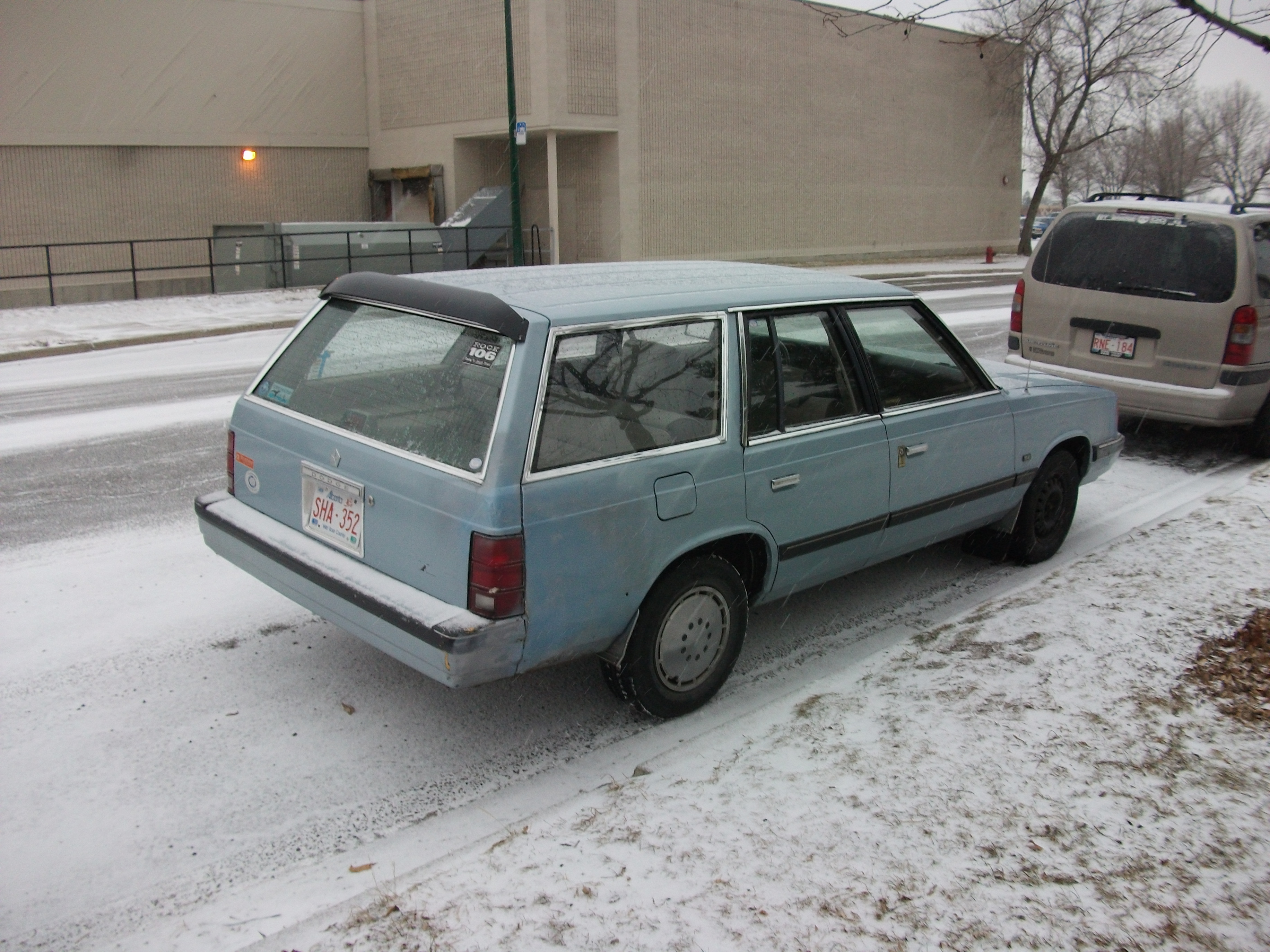 Dodge Aries station wagon